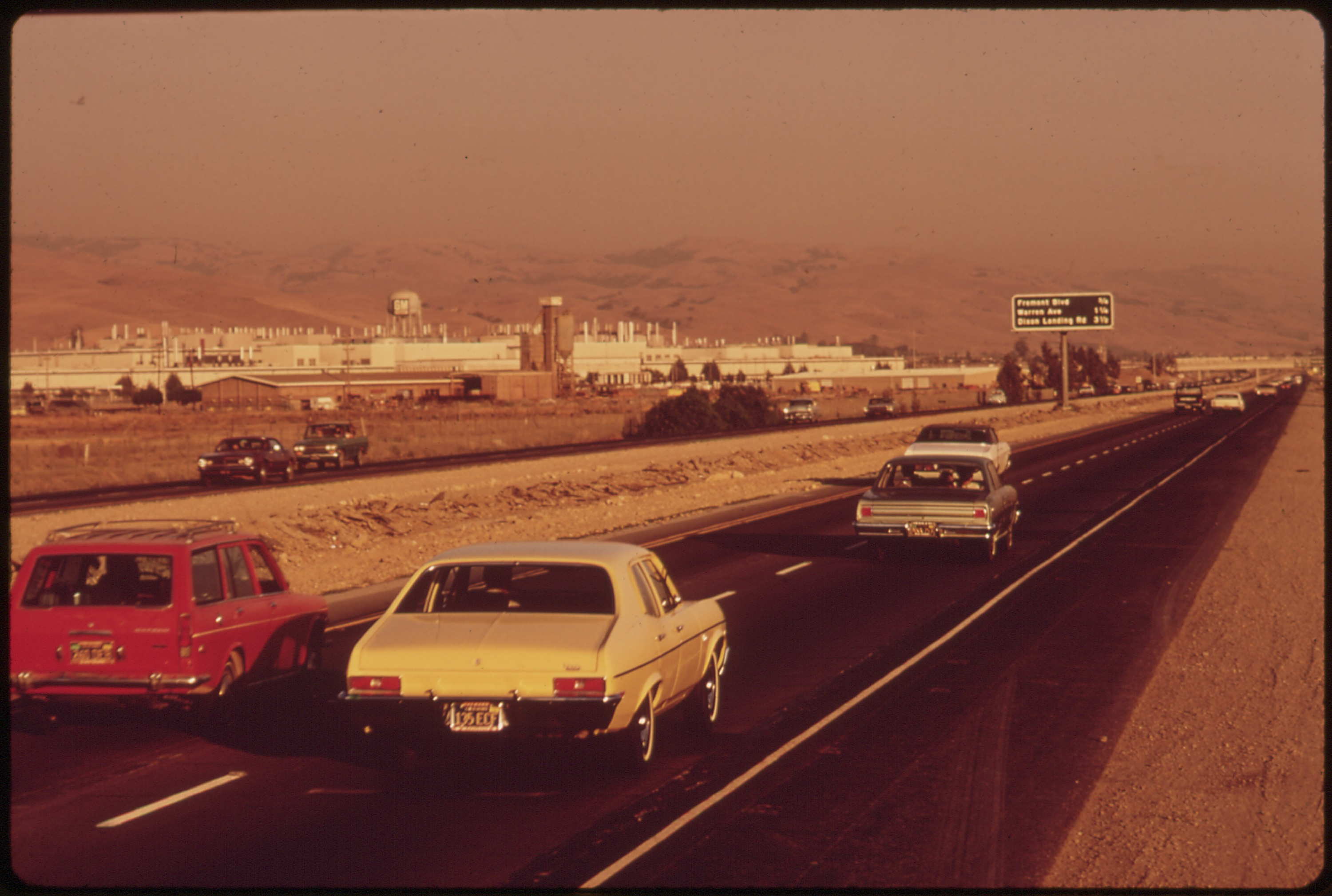 General notes: additional information: image is of the then Nimitz Freeway, now interstate 880 in fremont, with the then GM assembly plant (later the Nummi Plant, later the Tesla Plant) in the background.